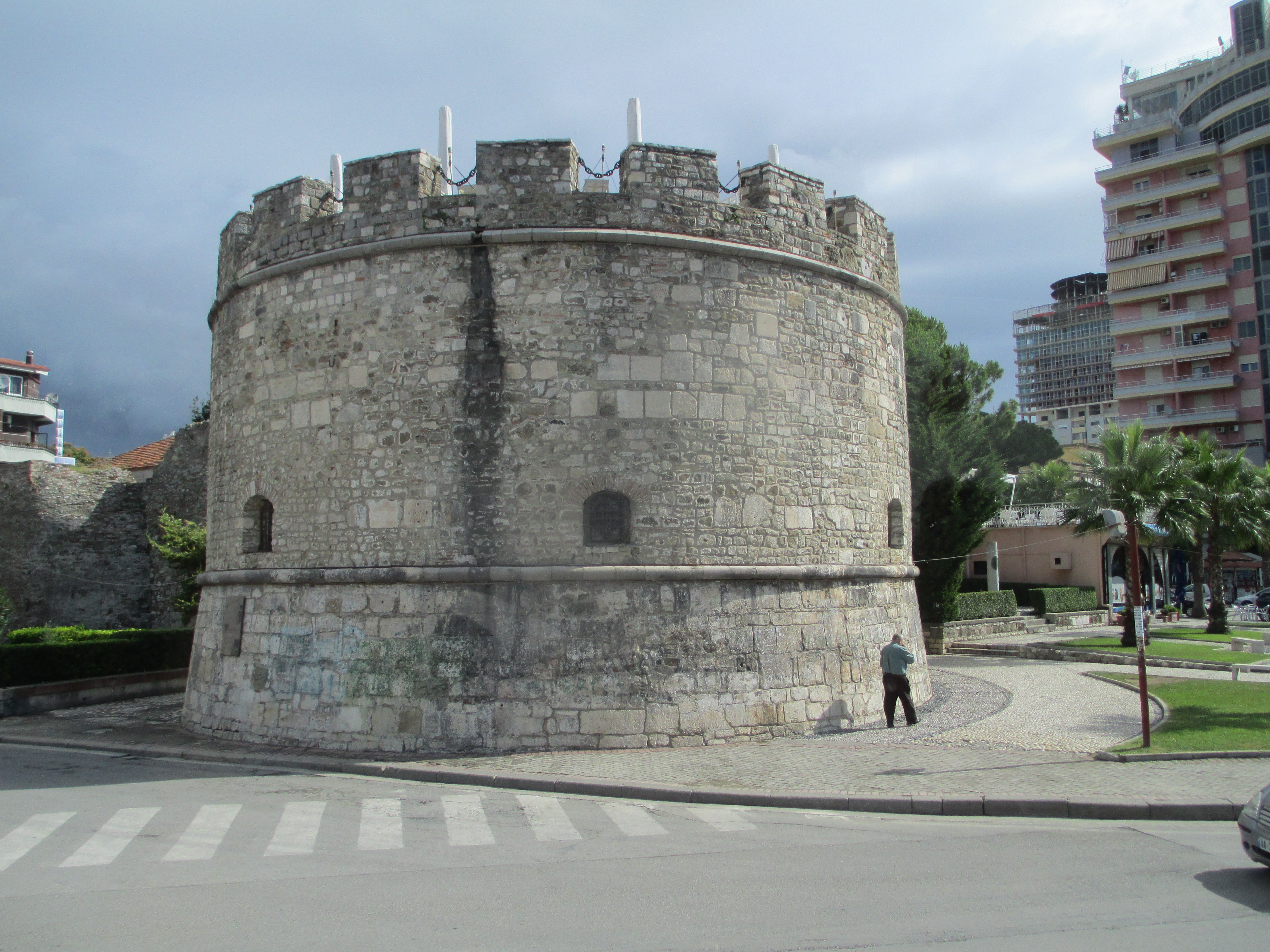 Durrës castle